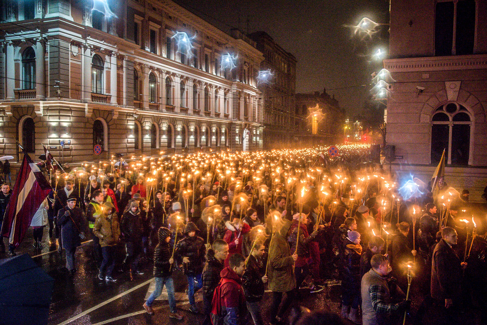 18th November Torchlight procession 2015 in Riga, Latvia